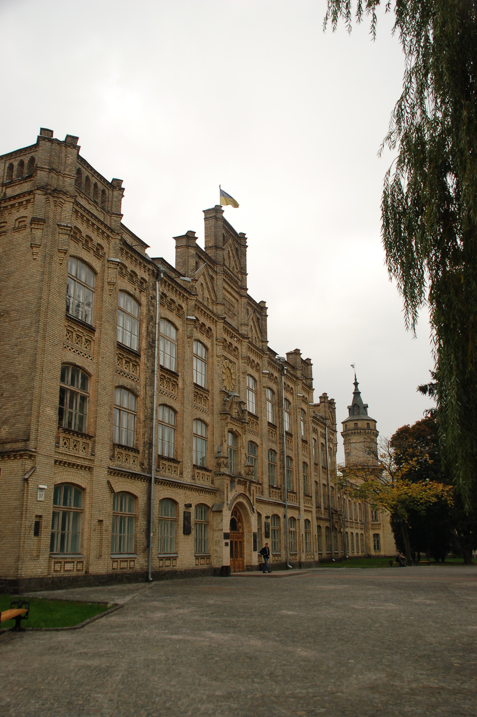 The first building (Korpus) of the National Technical University of Ukraine, Kiew Politechnical Institute (NTUU-KPI) was build in 1898